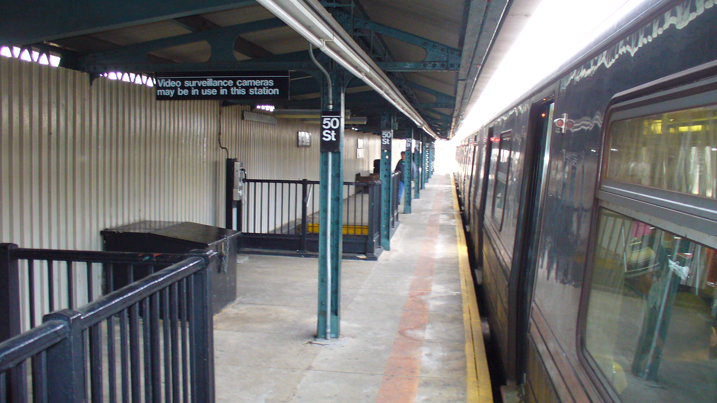 50th Street D Line NYC Subway Station by David Shankbone